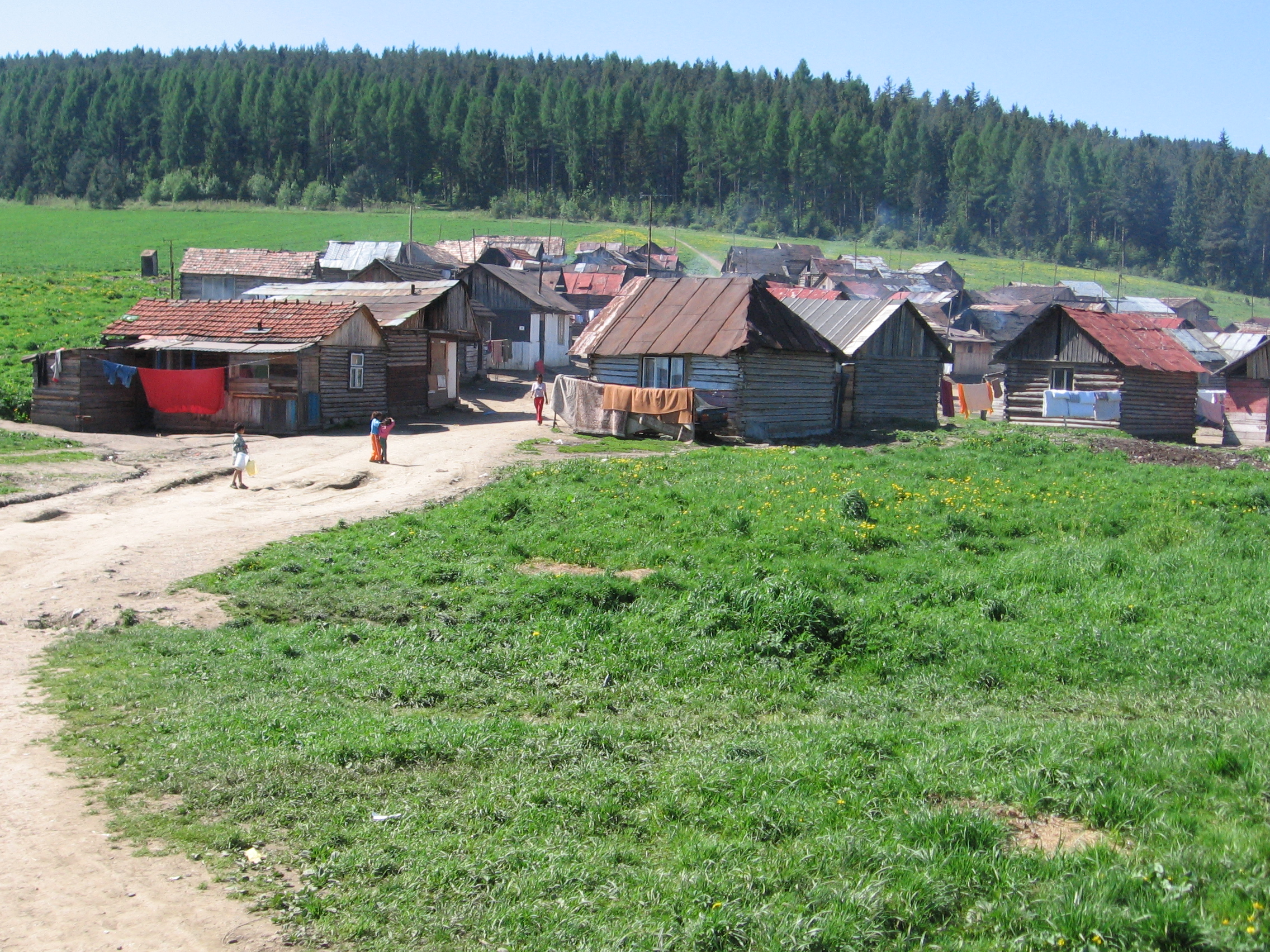 The Roma settlement at Letanovský Mlyn, near Letanovce, Slovakia, looking south towards the Slovenský raj national park.